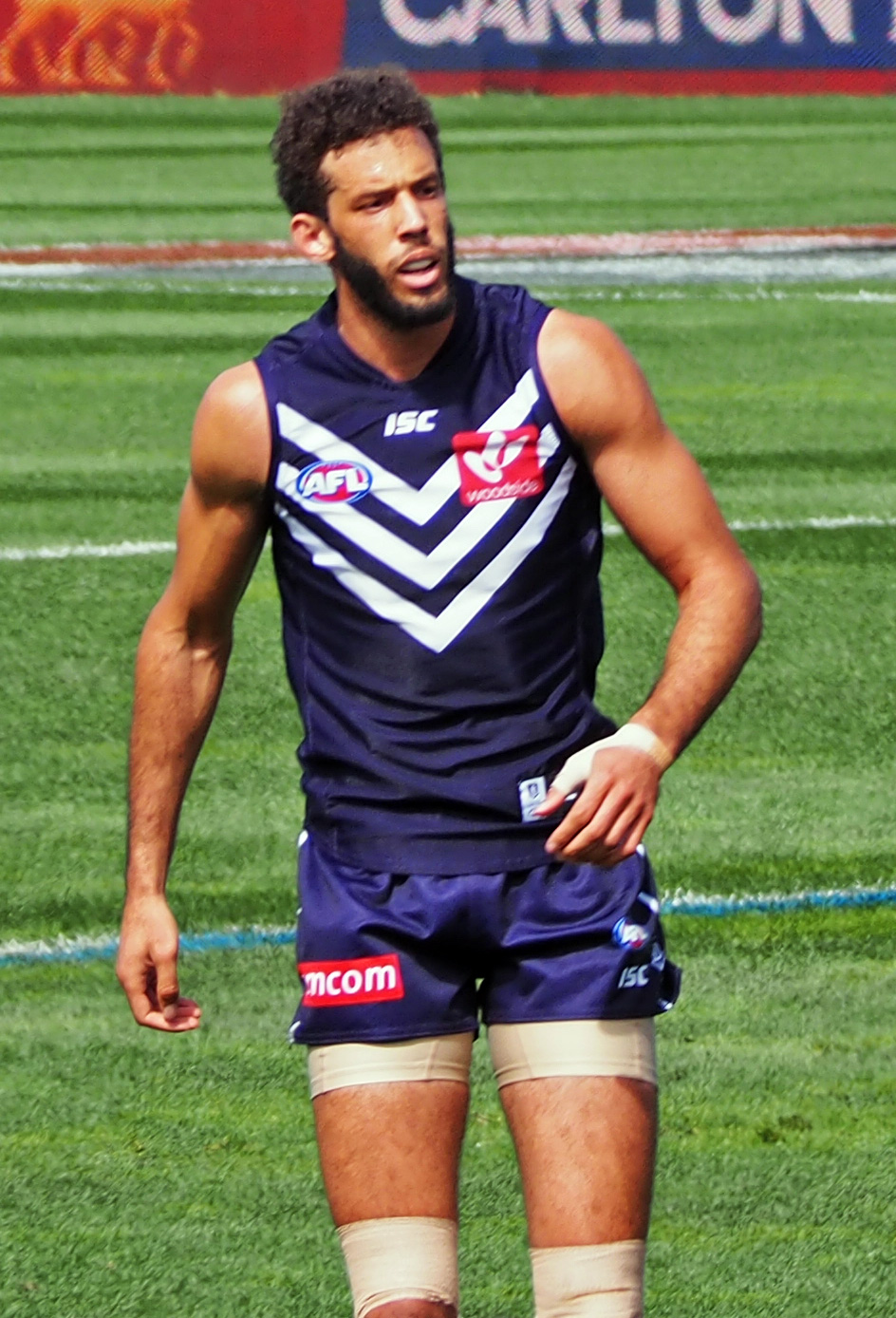 Zac Clarke playing for Fremantle Football Club at Patersons Stadium, Finals Week 1, 12 September 2015